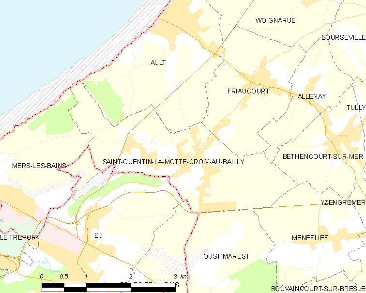 Map of French municipality Saint-Quentin-la-Motte-Croix-au-Bailly